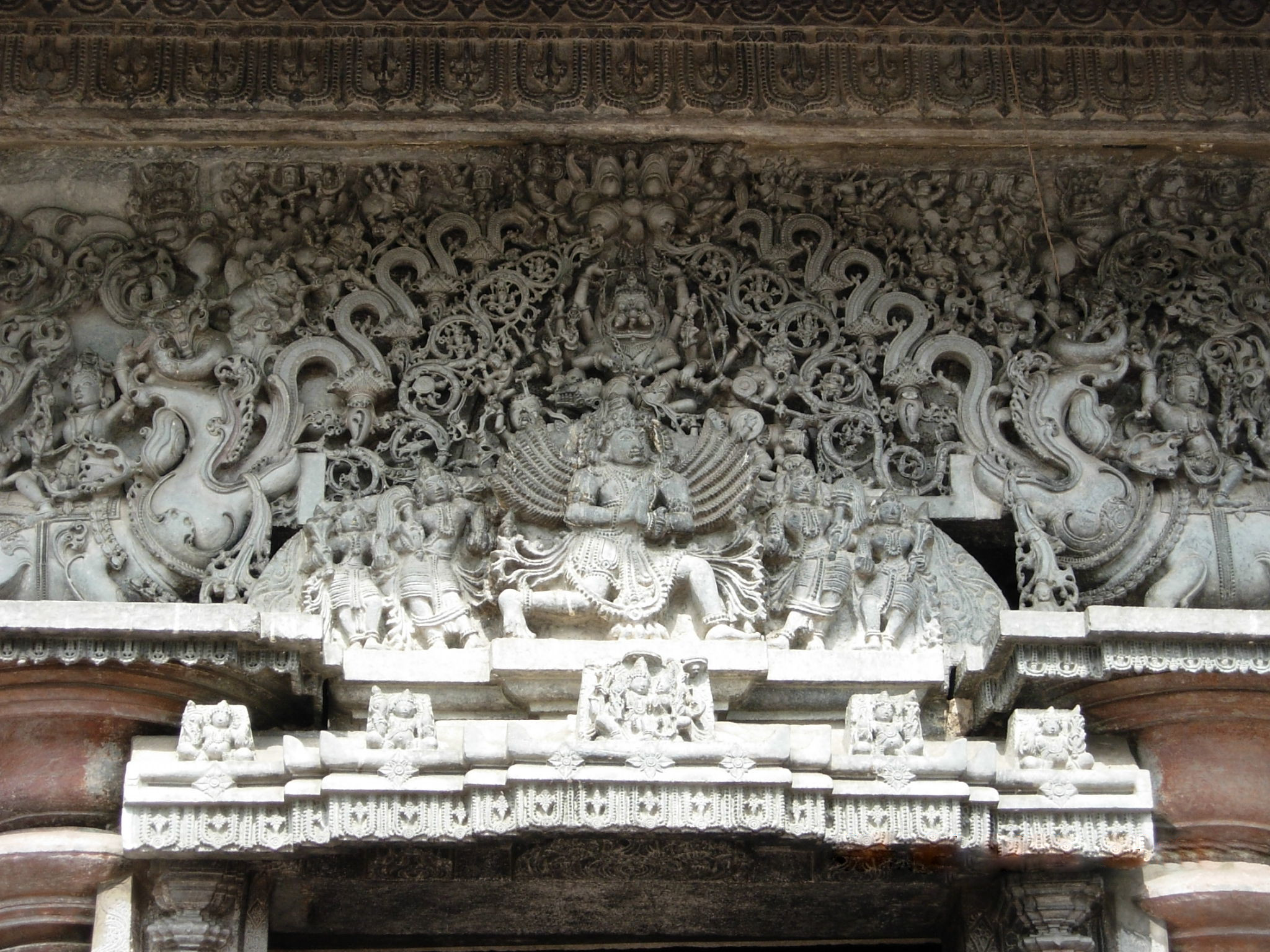 The carvings at the entrance of Chennakesava temple, Belur.